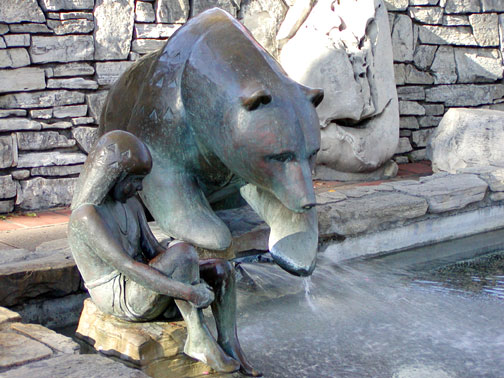 "Tequski' wa Suwa" (bear & child) Bronze, w36" x h42" 1988 Plaza of the Mission San Luis Obispo de Telosa, San Luis Obispo, California